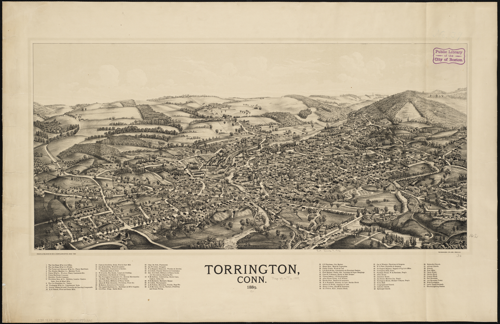 Zoom into this map at . Author: Norris, George E. Publisher: Geo. E. Norris Date: 1889 Location: Torrington (Conn.) Scale: Not drawn to scale. Call Number: G3784.T8A3 1889.N6